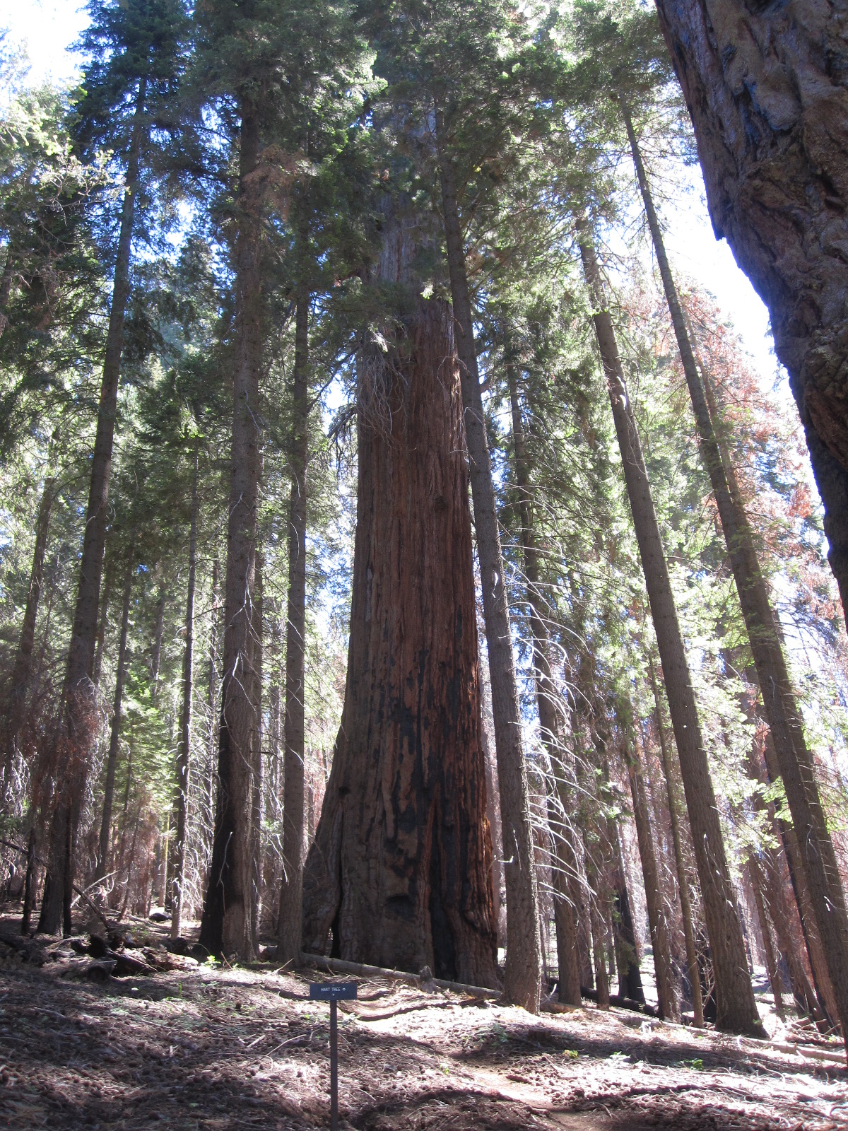 Hart Tree — a named giant sequoia (Sequoiadendron giganteum) in the Redwood Mountain Grove, Kings Canyon National Park, California.